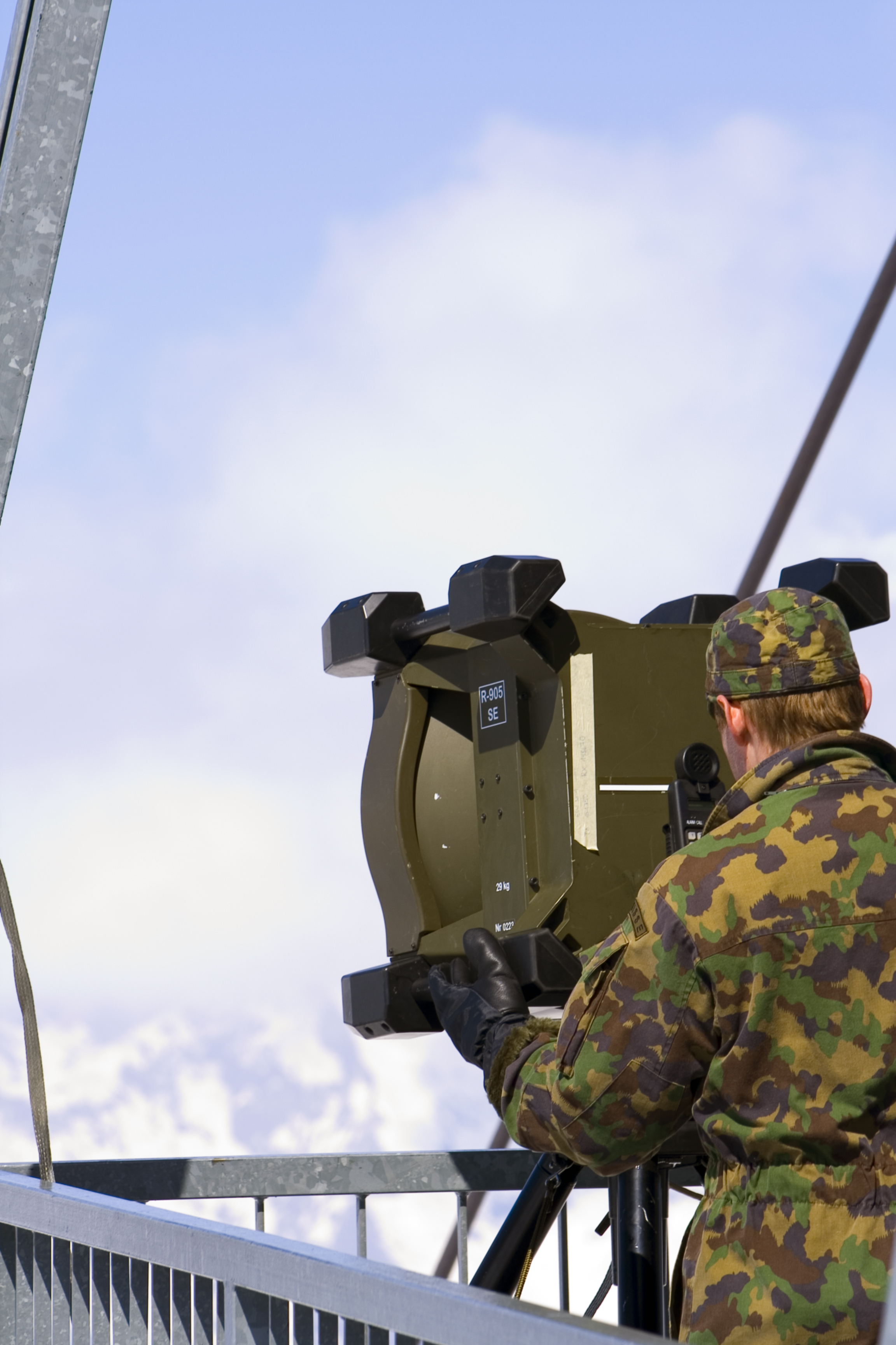 Swiss soldier with microwave radio station R-905